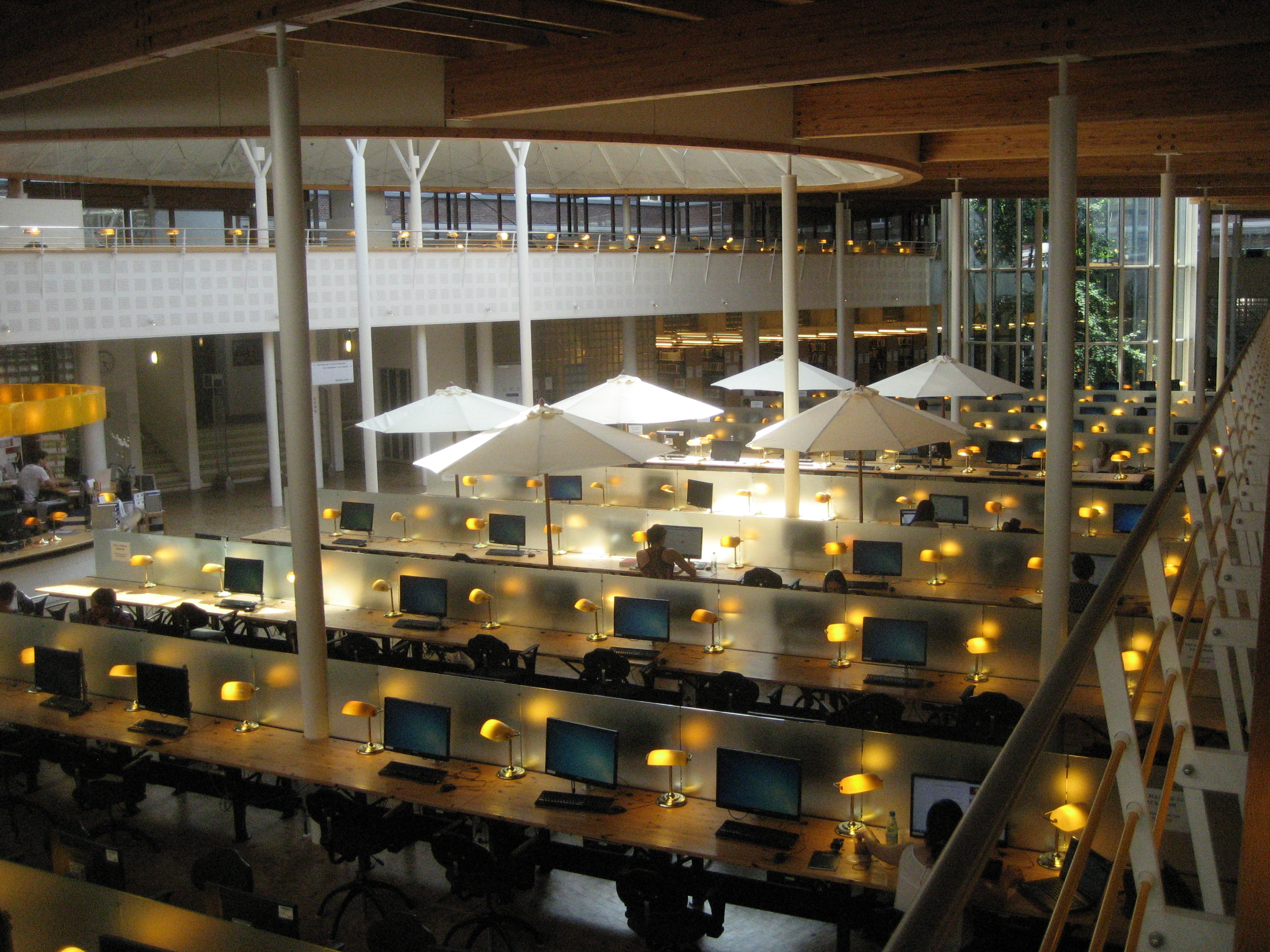 Law Library, Kamerlingh Onnes Building, Steenschuur, Leiden University (The Netherlands), architect: Hans Ruijssenaars.